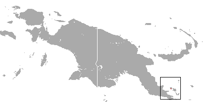 Black Dorcopsis (Dorcopsis atrata) range